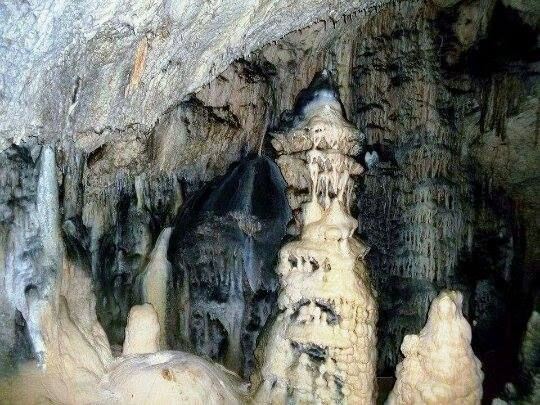 This image was uploaded as part of Trace of Soul 2016.